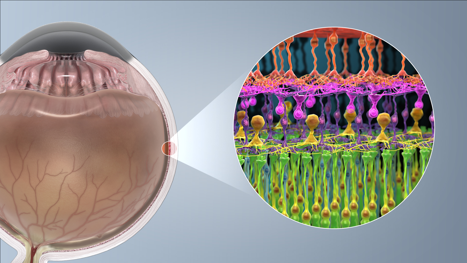 The rod and cone photoreceptors signal their absorption of photons via a decrease in the release of the neurotransmitter glutamate to bipolar cells at its axon terminal. Since the photoreceptor is depolarized in the dark, a high amount of glutamate is being released to bipolar cells in the dark. Absorption of a photon will hyperpolarize the photoreceptor and therefore result in the release of less glutamate at the presynaptic terminal to the bipolar cell. When glutamate binds to an ionotropic receptor, the bipolar cell will depolarize on the other hand, binding of glutamate to a metabotropic receptor results in a hyperpolarization, so this bipolar cell will depolarize to light as less glutamate is released.